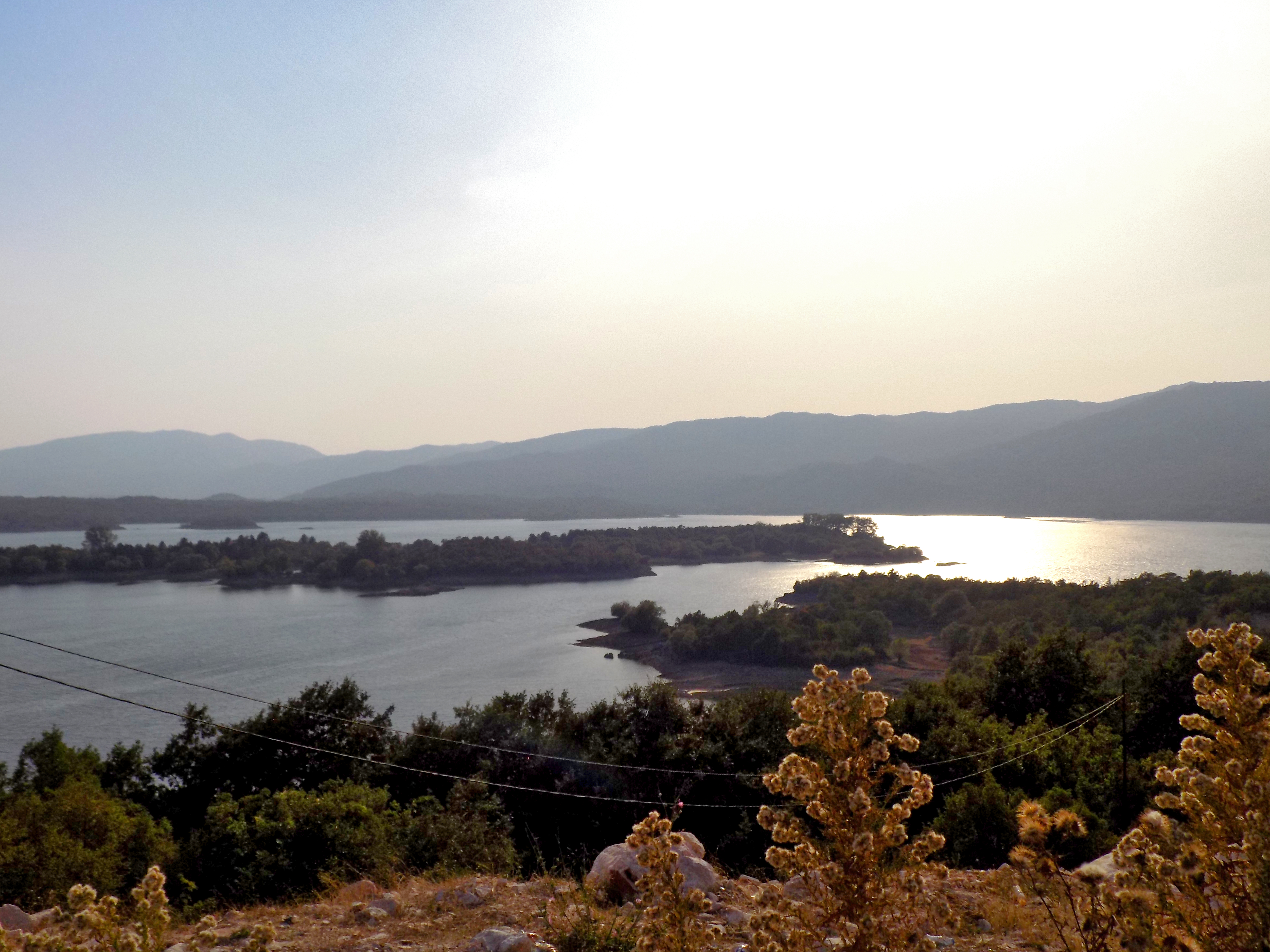 Lake Krupac, reservoir near Nikšić, Montenegro